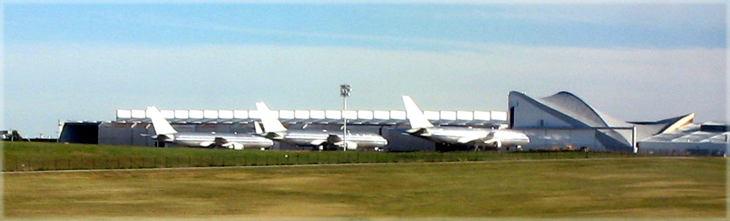 American Airlines Overhaul Base in at Kansas City International Airport. Photo by poster in September 2007.